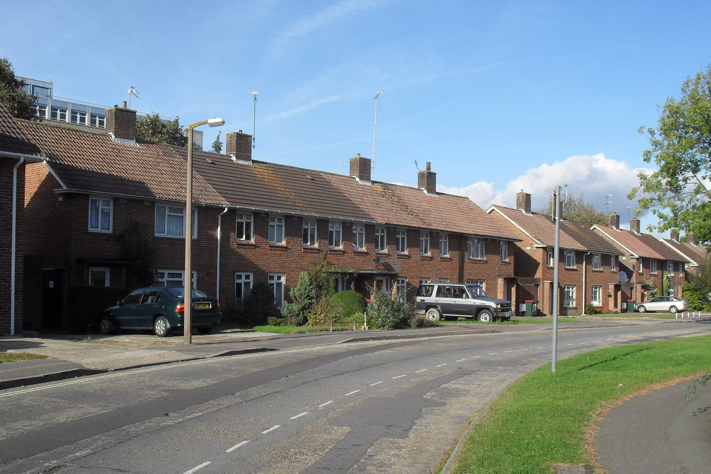 Smalls Mead in the West Green neighbourhood of Crawley, West Sussex, England. The first street built in Crawley after it was designated a "New Town" in 1947. Construction started in 1948 and continued during 1949.